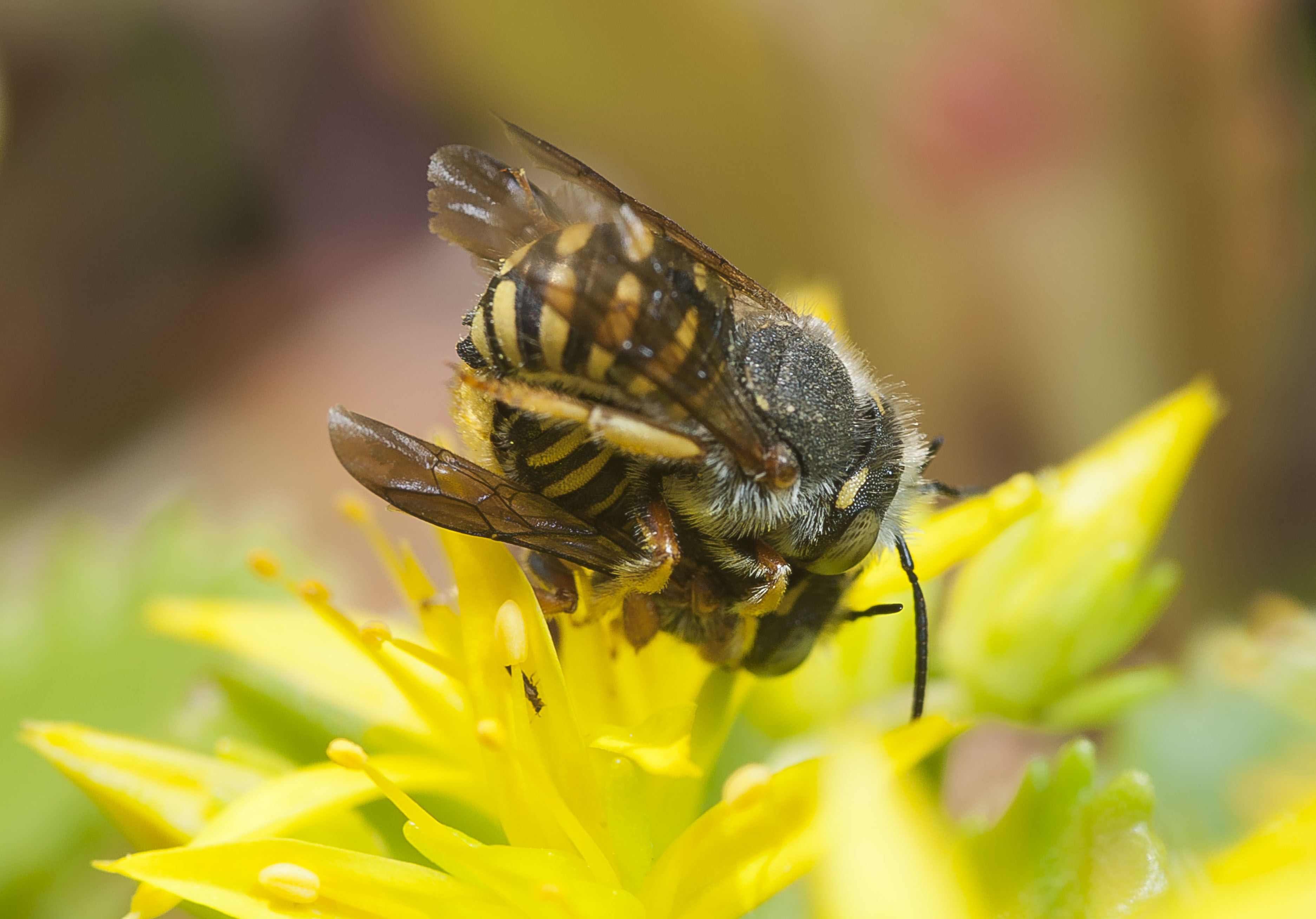 Anthidium oblongatum, picture taken in garden in Stuttgart, Germany. Thanks to the members of Entomologie.de for the identification.